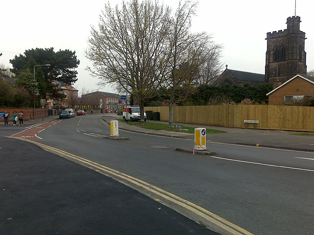 Chilwell Road, Beeston The parish church of St John the Baptist on the right. The go-ahead was given for the Phase two extension to the NET tram system this week. The trams will come down here with this junction being extensively remodelled. The two trees at the centre of the picture will be felled.